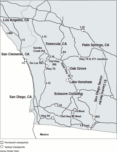 Internal border checkpoints in the San Diego Sector